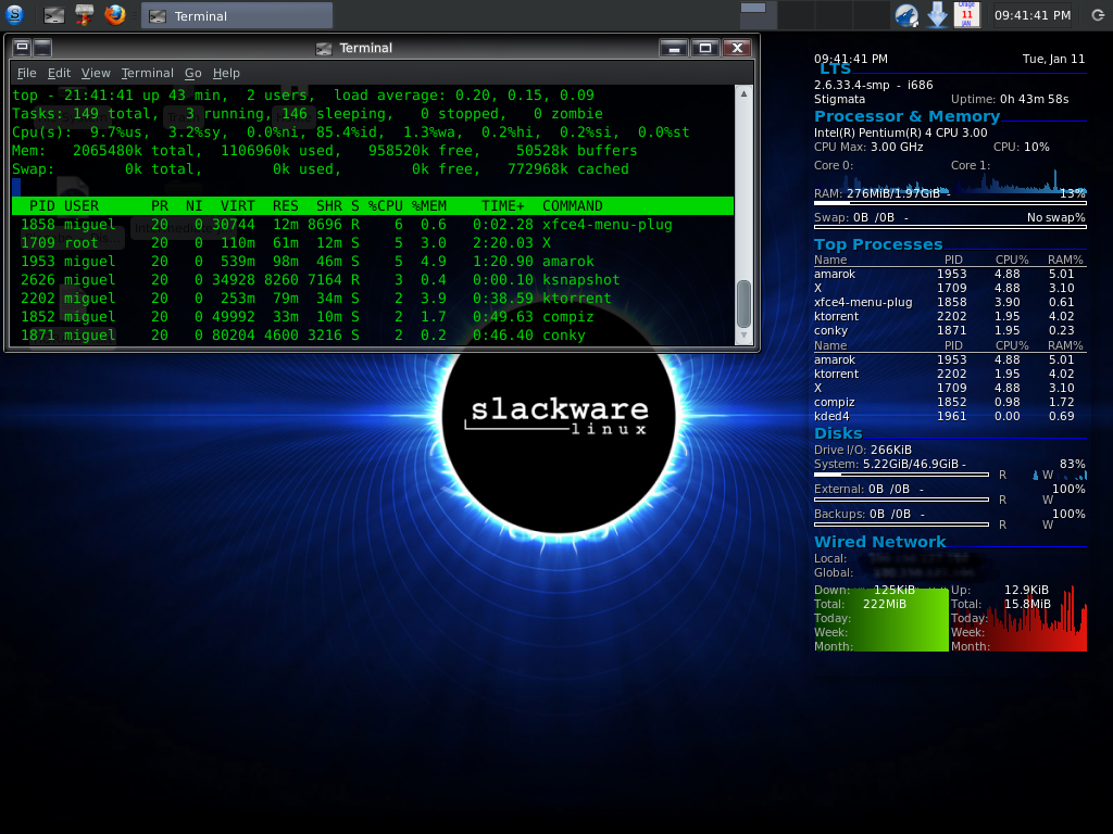 Desktop picture taken on slackware 13.1 using the xfce desktop environment (customized). running applications: conky ktorrent amarok terminal top